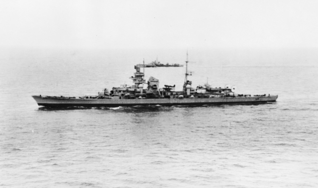 In the North Sea. C. 1945-05. Acting as "air sentries", aircraft of RAF Coastal Command in which many RAAF men are still serving kept a watchful eye on the two German cruisers Prinz Eugen and Nürnberg whilst they were on their way from Copenhagen to Wilhelmshaven under the terms of surrender.